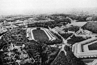 Vélodrome municipal de Vincennes (La Cipale), cycling stadium built in 1894 in the Bois de Vincennes near Paris, named Vélodrome Jacques-Anquetil since 1987. Hosted cycling, cricket, rugby union, football and gymnastics competitions of the 1900 Summer Olympic, track cycling competitions of the 1924 Summer Olymics and the arrival of the Tour de France from 1968 to 1974.